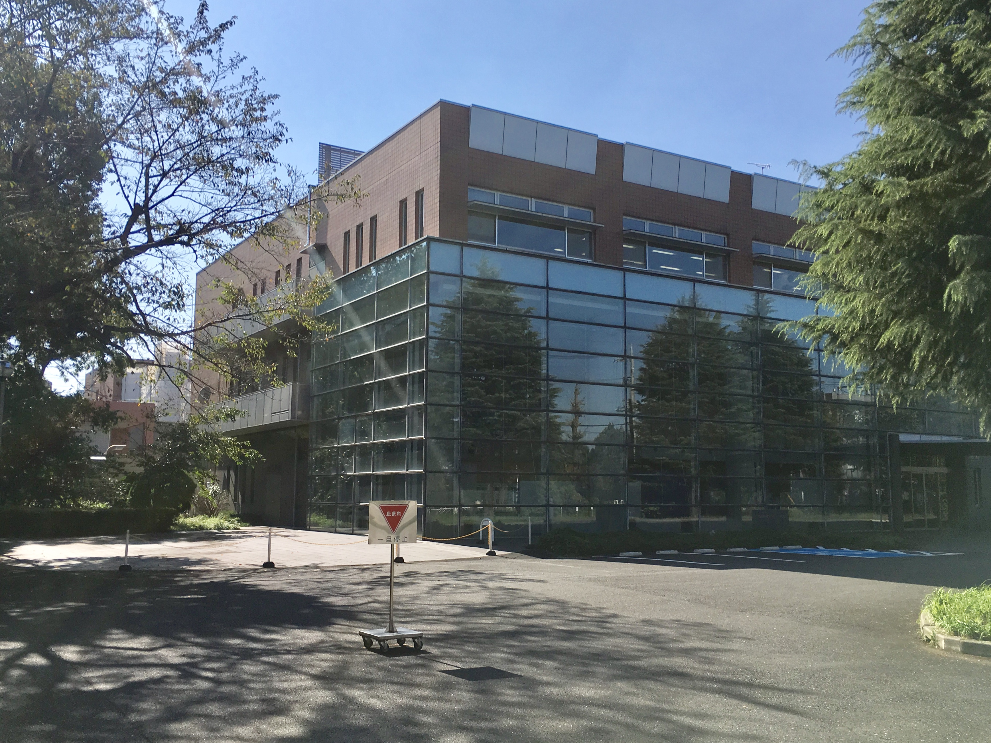 Main building of the National Research Institute of Fire and Disaster.